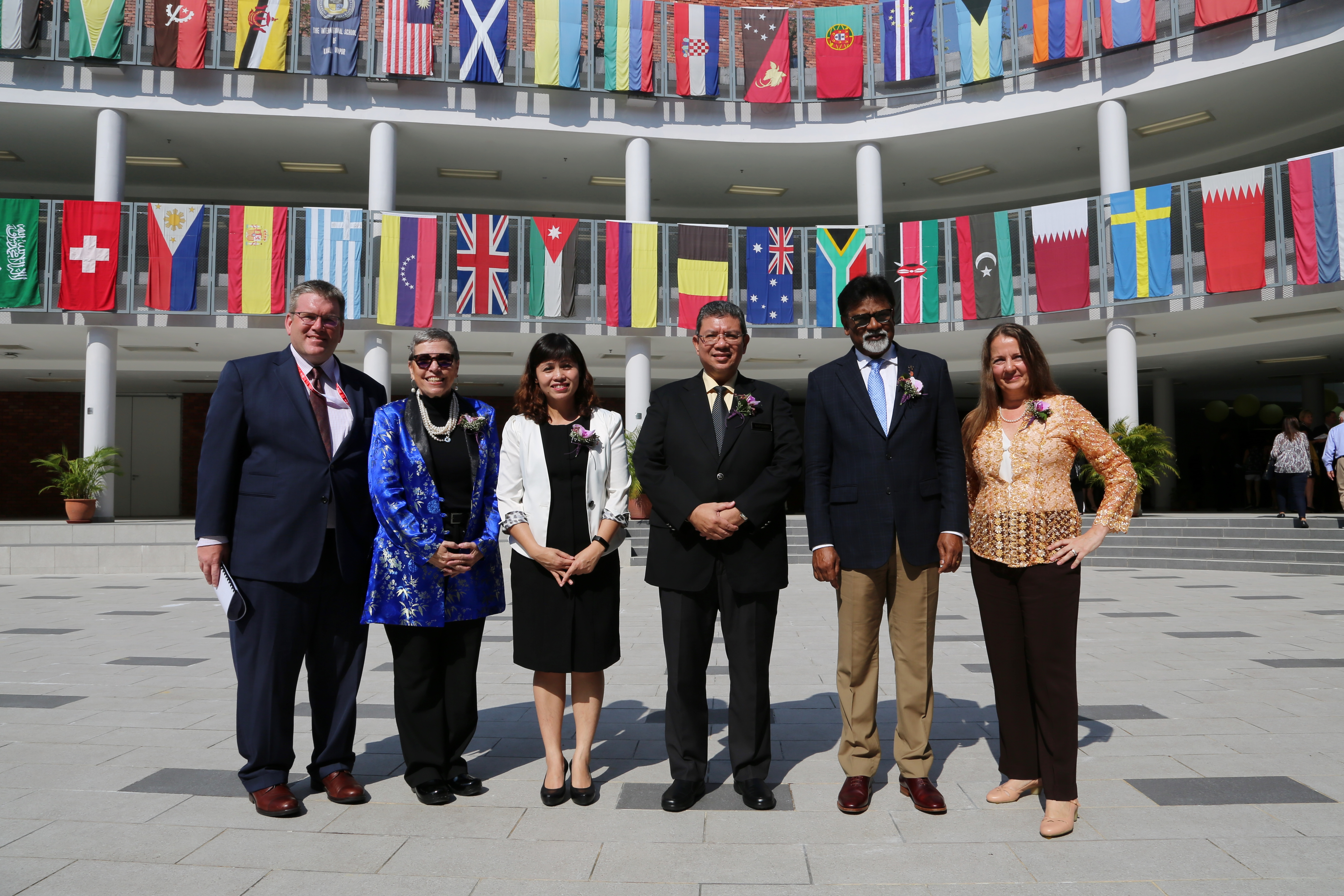 The International School of Kuala Lumpur relocated from their original campus to a newly built one that included increased facilities. This photo was taken at the grand opening for the new campus.